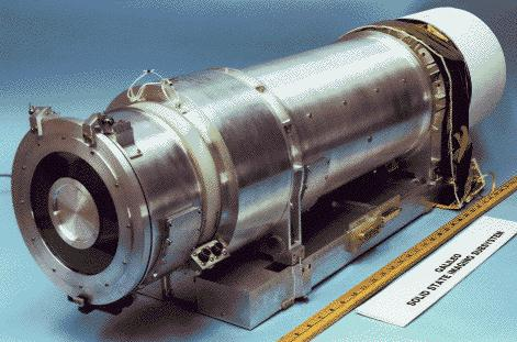 Solid-State Imaging camera of the Galileo spacecraft.